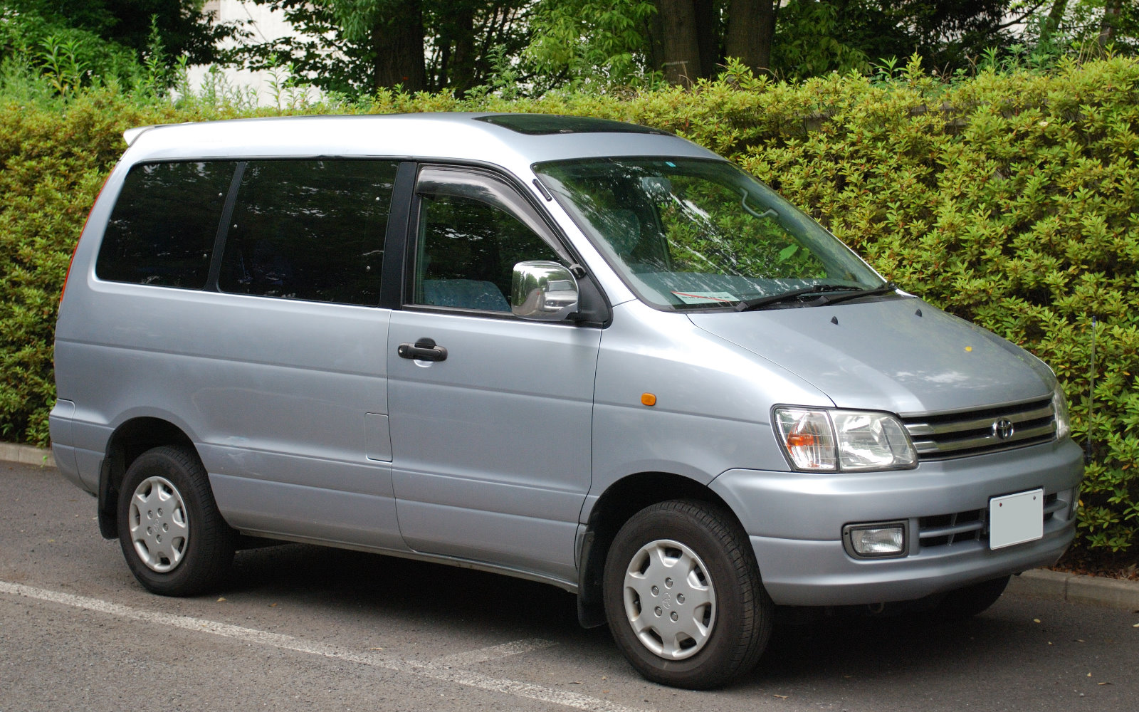 3rd generation Toyota TownAce Noah (1996/10 - 1998/12)